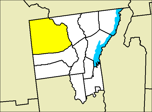 Map of Warren County, New York with town of Johnsburg highlighted.